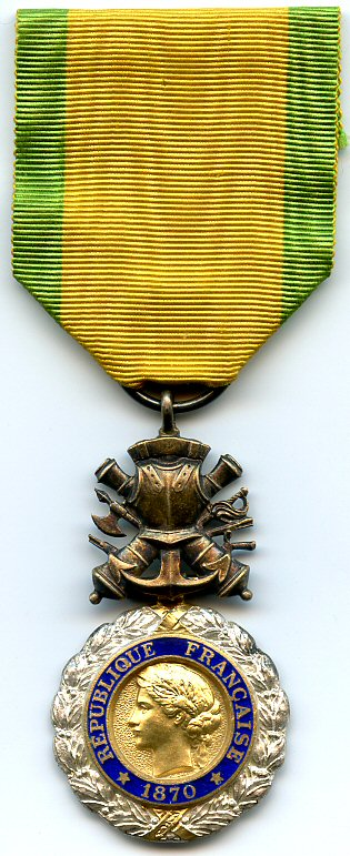 Military Medal, 3rd Republic variant 1870 - 1940 (France)